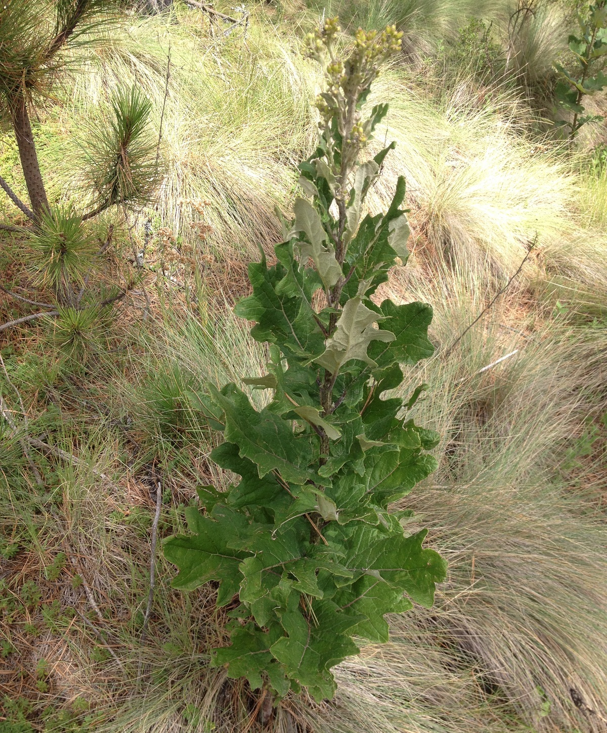 A general view of Roldana candicans, a subalpine shrub from the Mexican highlands, with flower buds. Photo taken at cerro Telapón in Ixtapaluca, State of Mexico. This photo has also been posted on iNaturalist